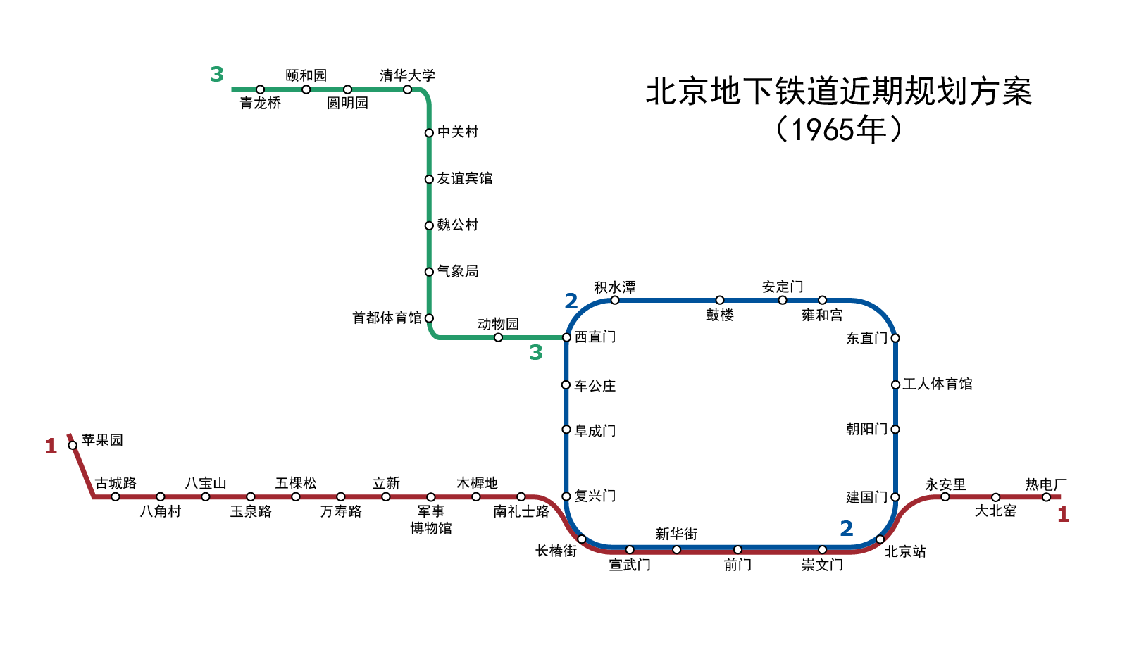 Map of Beijing Subway 1965 construction plan, drawn not to the scale.